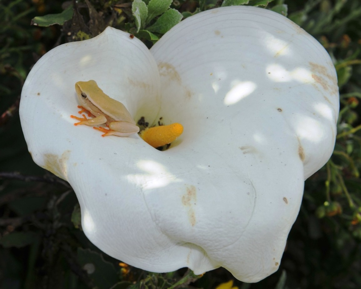 Hyperolius horstockii. The Arum Lily Frog. Photo taken in Cape Town.